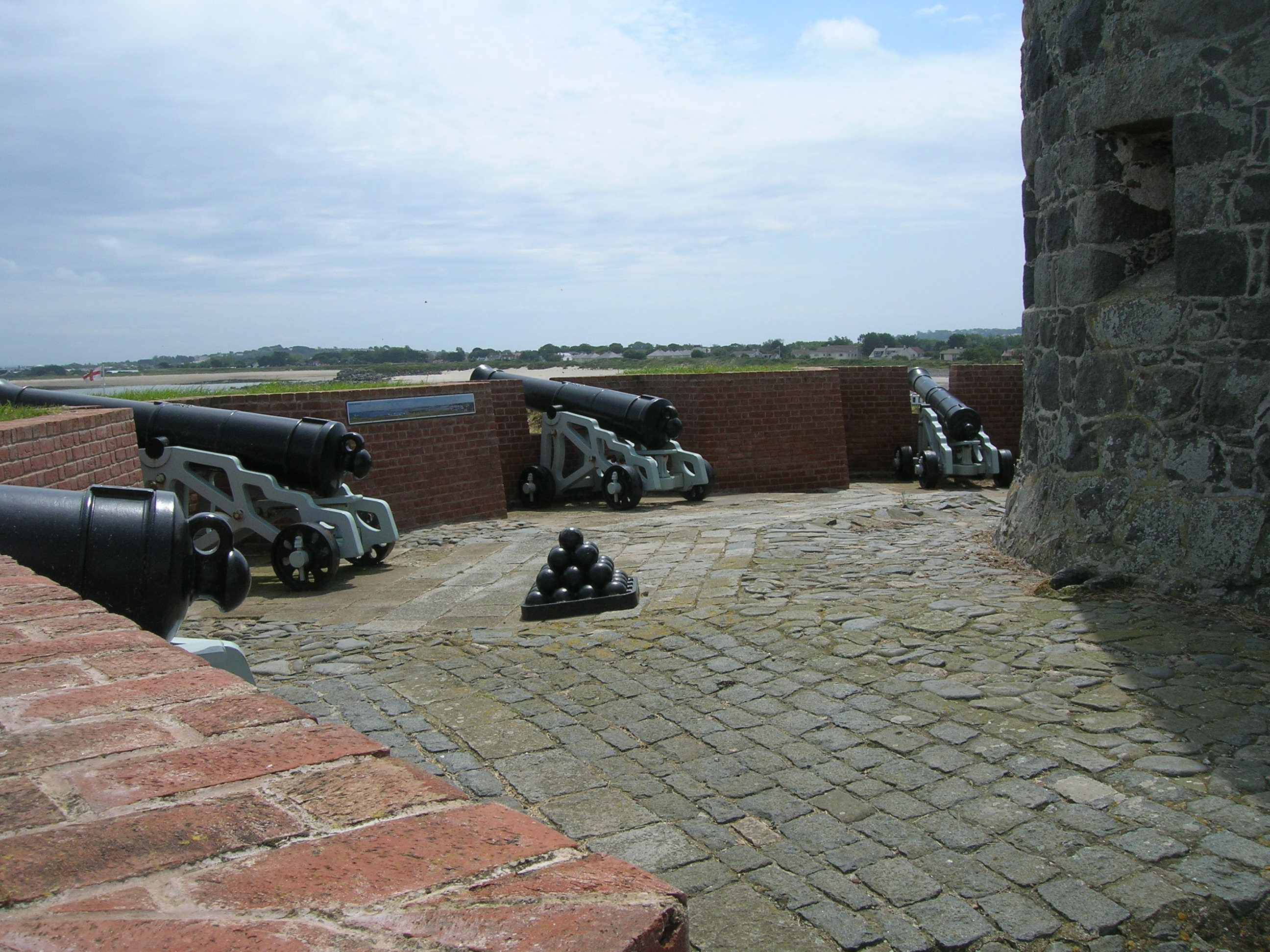 Victorian battery added to Rousse Tower, Guernsey